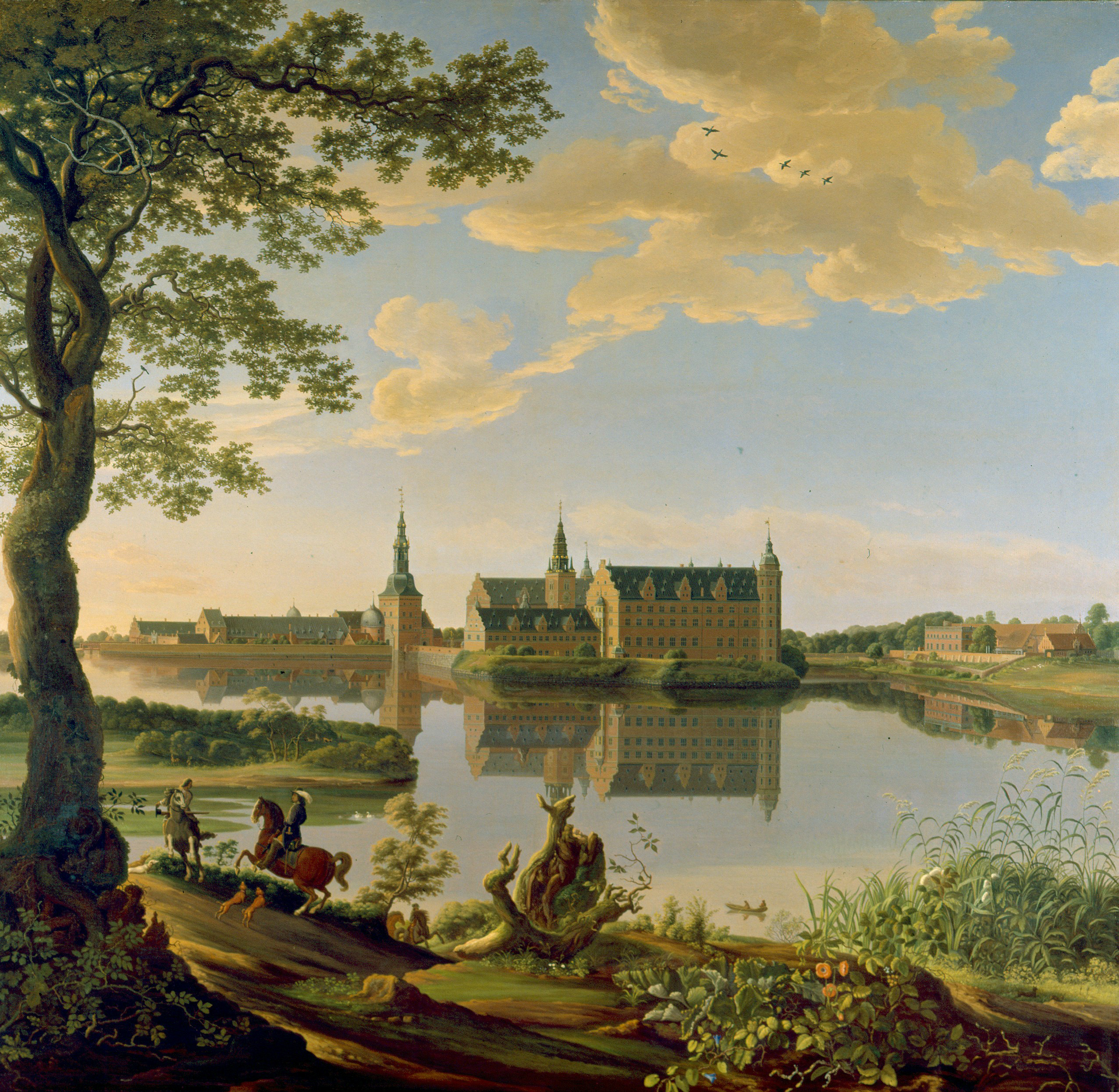 Frederiksborg Castle with Frederick III on horseback. Gripsholm Castle.